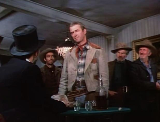 Left to right: John McIntire (back), Jack Elam, James Stewart, Jay C. Flippen, and Walter Brennan in The Far Country (1954) - trailer (cropped screenshot)